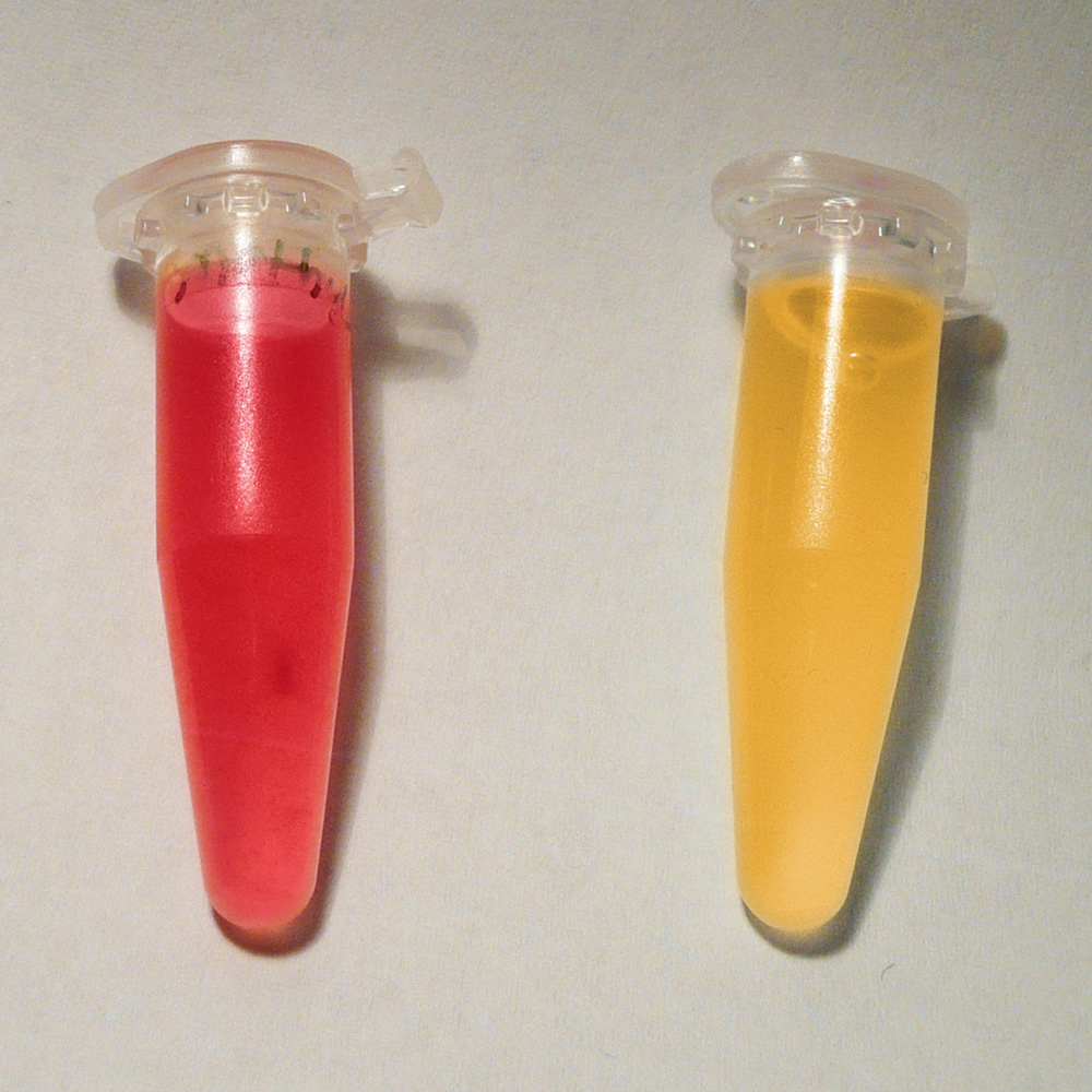 Methyl red test: Escherichia coli (left), showing a positive result (the microorganism has produced a large amount of acid during fermentation of glucose, which is detected by the pH indicator), and Enterobacter cloacae (right) showing a negative result (the microorganism has produced a small amount of acid or no acid during fermentation of glucose).